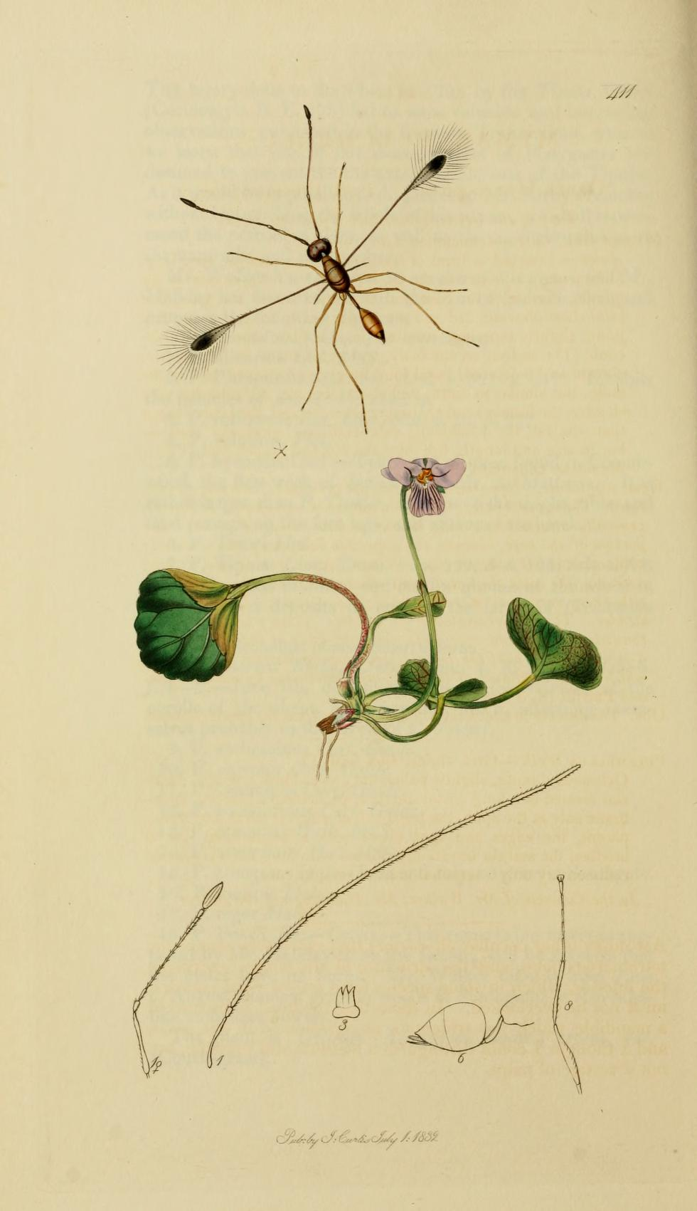 An illustration from British Entomology by John Curtis.Mymar pulchellum Curtis the Feather-winged Mymar